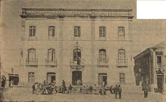 Building of the Lagos Town Hall, in the city with the same name, in southern Portugal. This image was published in the Revista do Turismo magazine No. 41, of 5th March 1918, and scanned by the Hemeroteca Municipal de Lisboa.